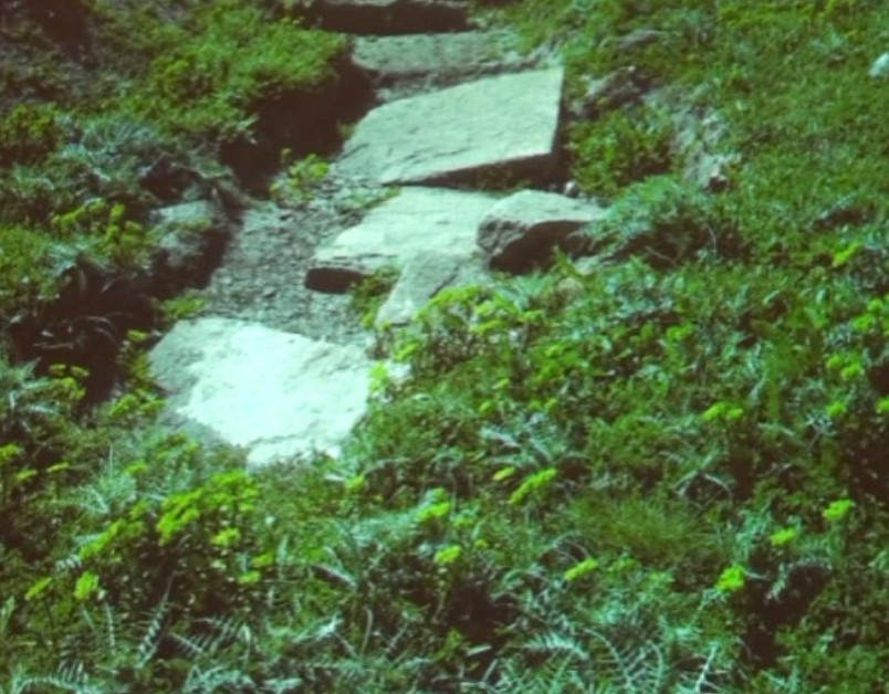 m. Prama tombs